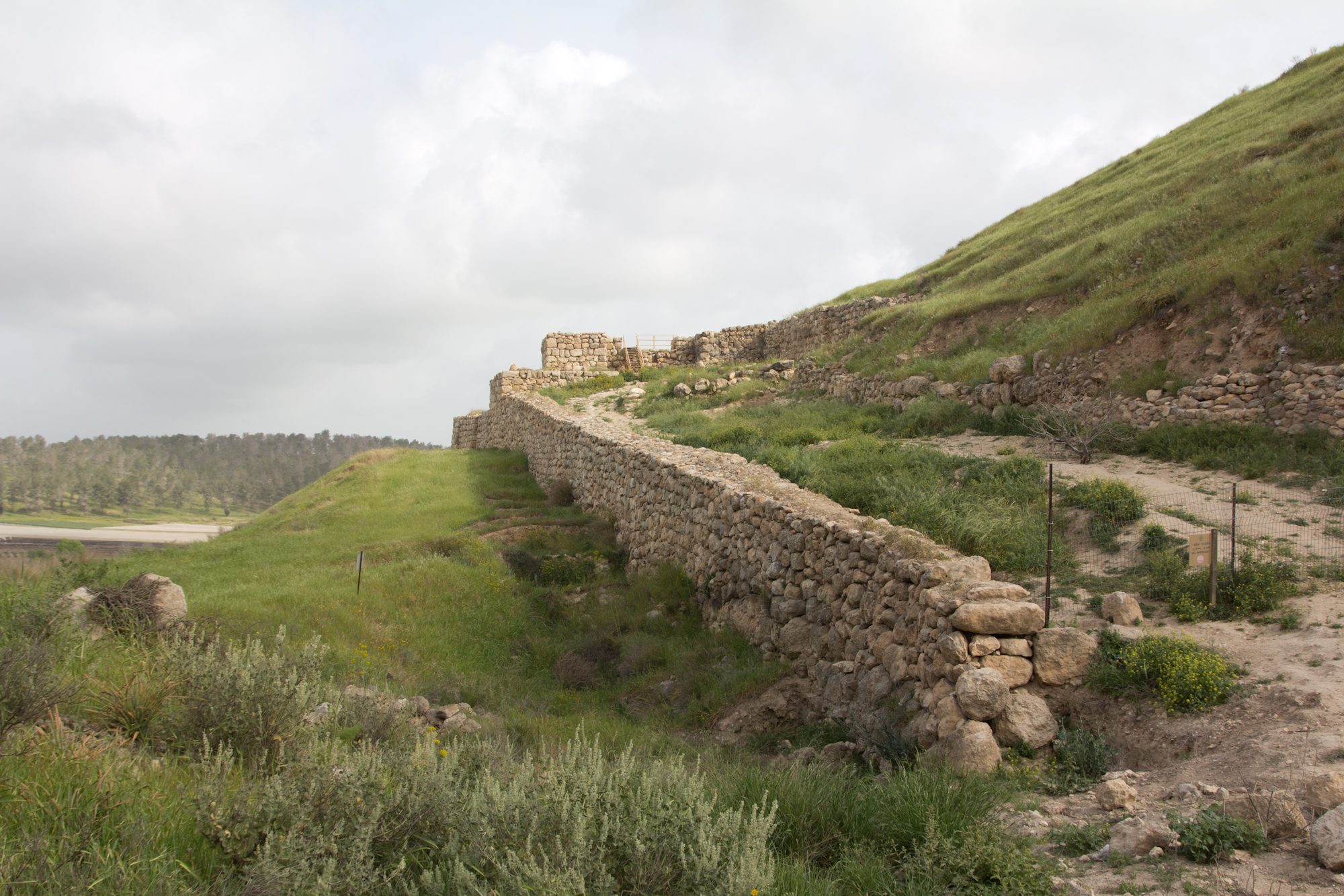 City gate at Tel Lachish, March 16, 2013